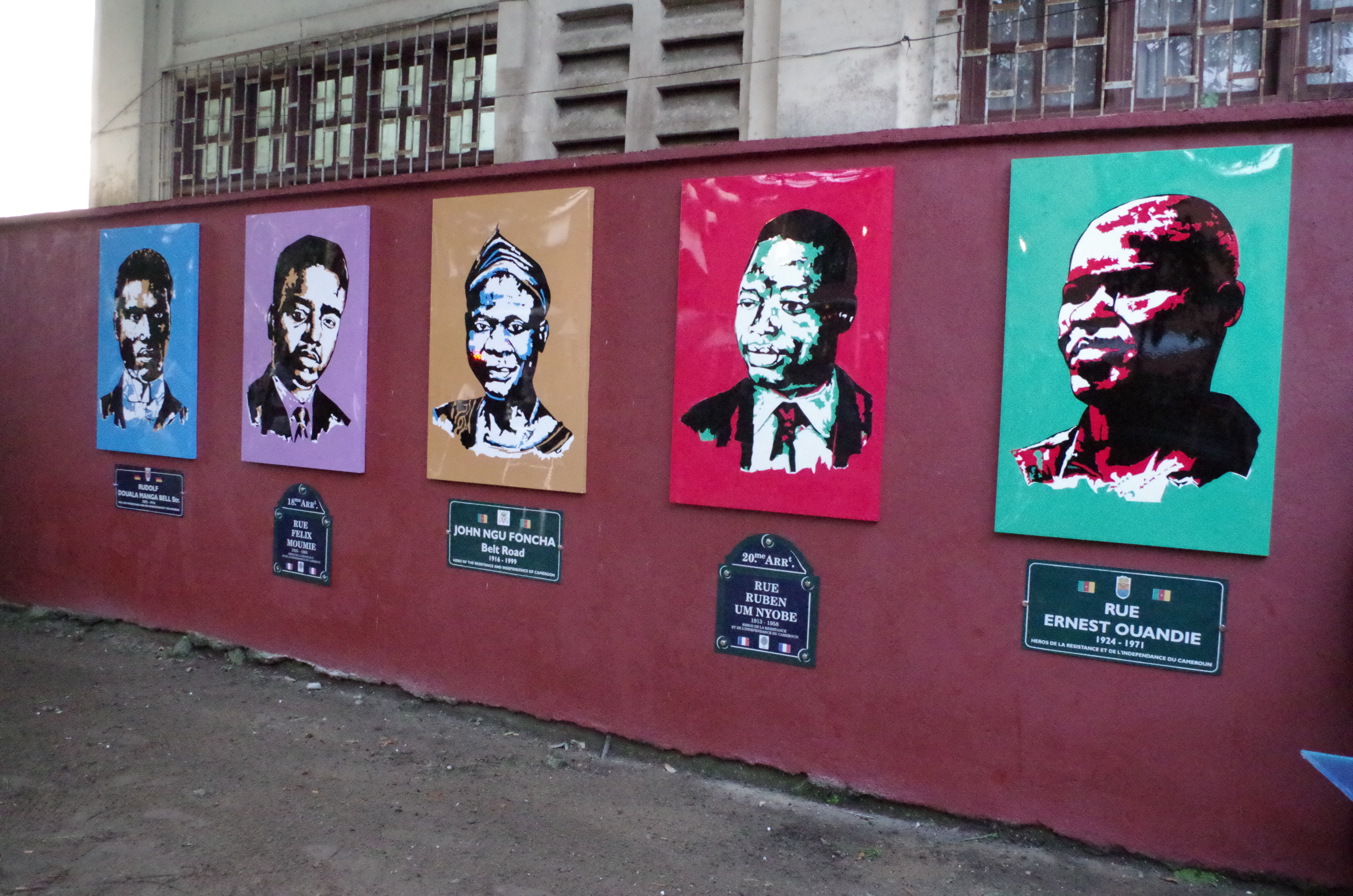 Hervé Youmbi, Cameroonian Heroes. Presentation of the artworks during the SUD Salon Urbain de Douala 2013.